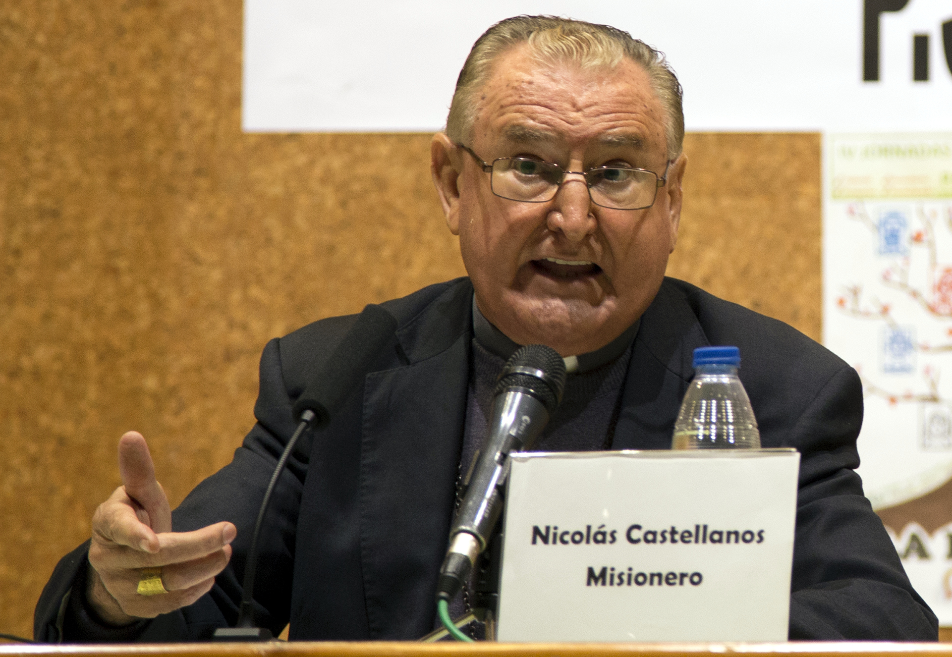 Nicolás Castellanos, Spanish Catholic missionary.